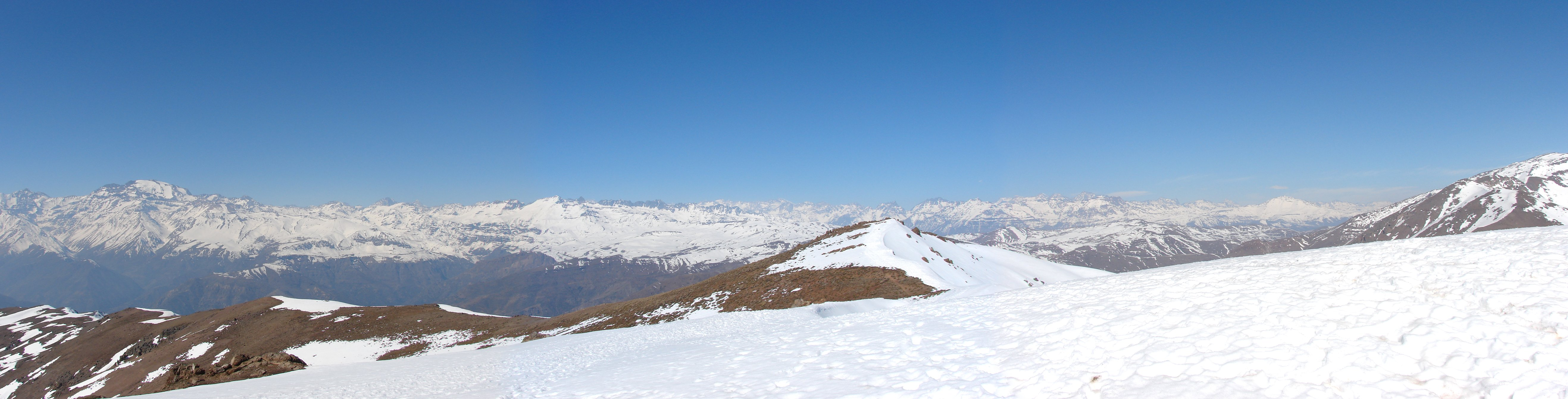 A panoramic view from very near the summit of Cerro Provincia looking towards the east (photo spans roughly 145 degrees). Cerro El Plomo is the large mountain that dominates the view on the left, while the northern part of Cerro San Ramon is close-by on the right. Created with a Sony DSC-H2 camera using 5 shots stitched together with the program Hugin. This photo is from the "false peak" of Provincia. The actual summit is the peak in the middle of the photo. The altitude difference between the false peak and the peak is only perhaps a couple meters.